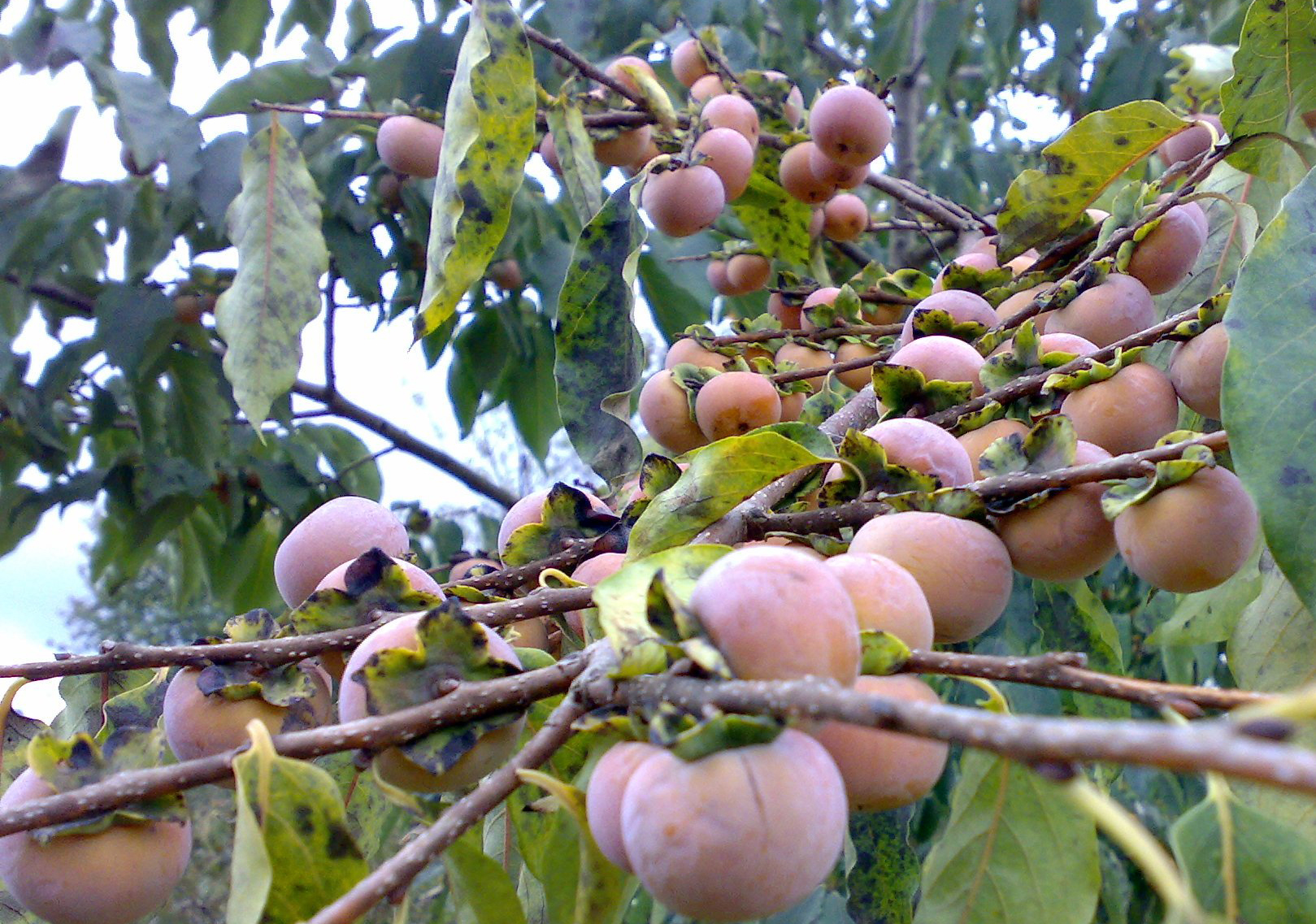 Fruits of Caucasian persimmon (Diospyros lotus). Espiye - Giresun, Turkey.